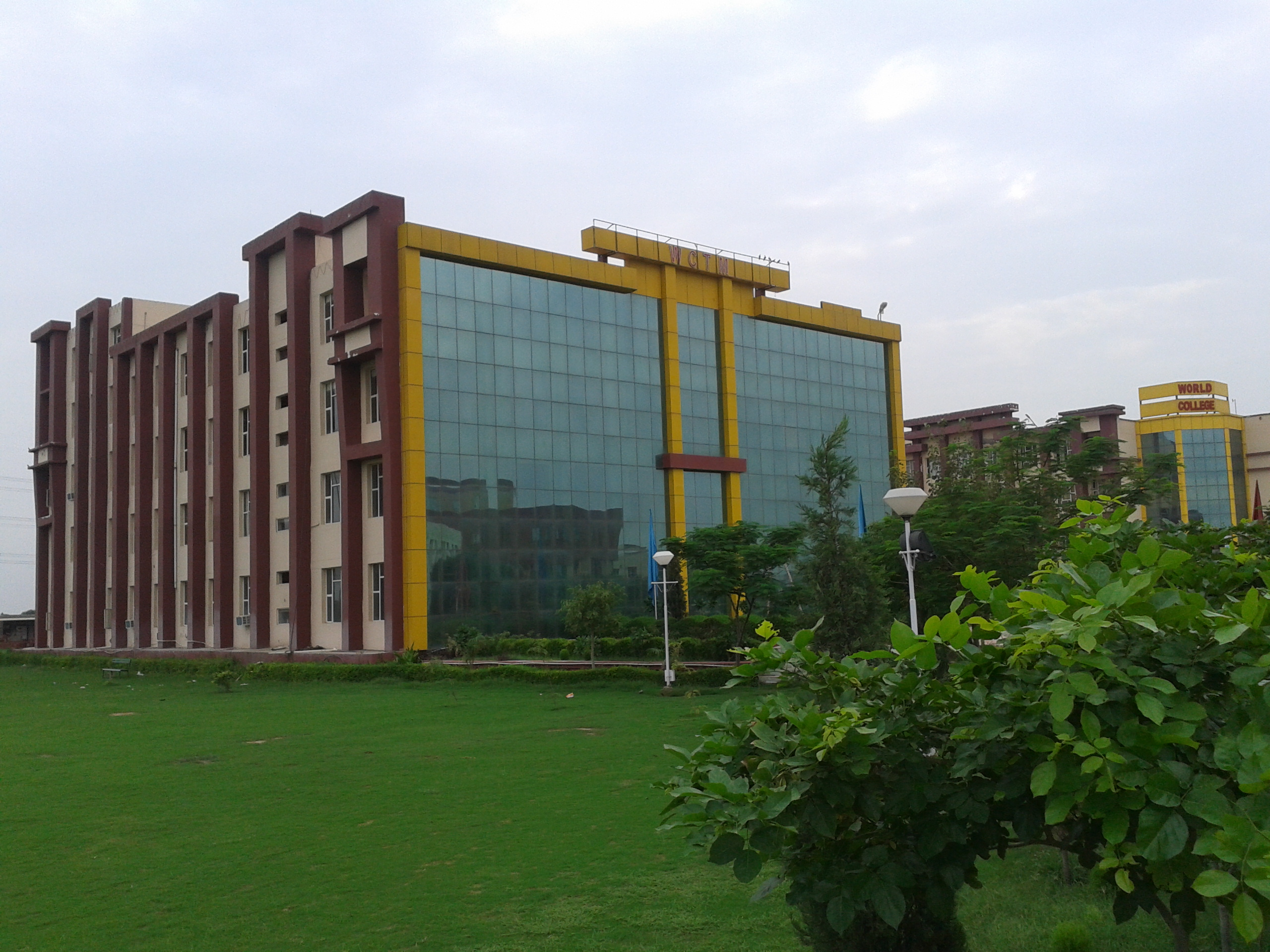 This is the educational block for engineering branches.